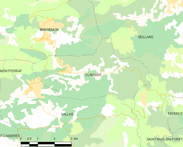 Map of French municipality Claviers